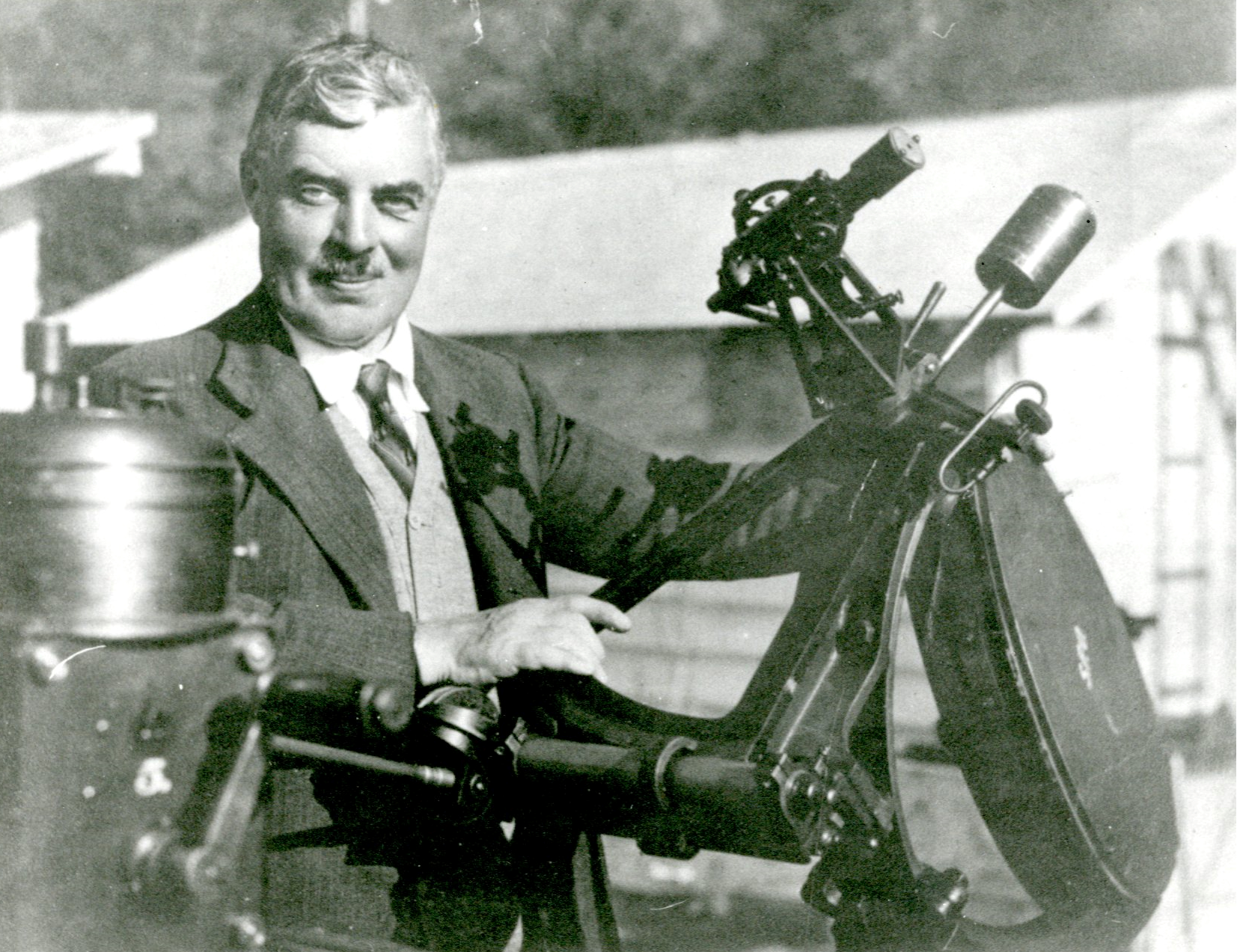 The astrophysicist and psychical researcher F. J. M. Stratton in Japan, 1936.